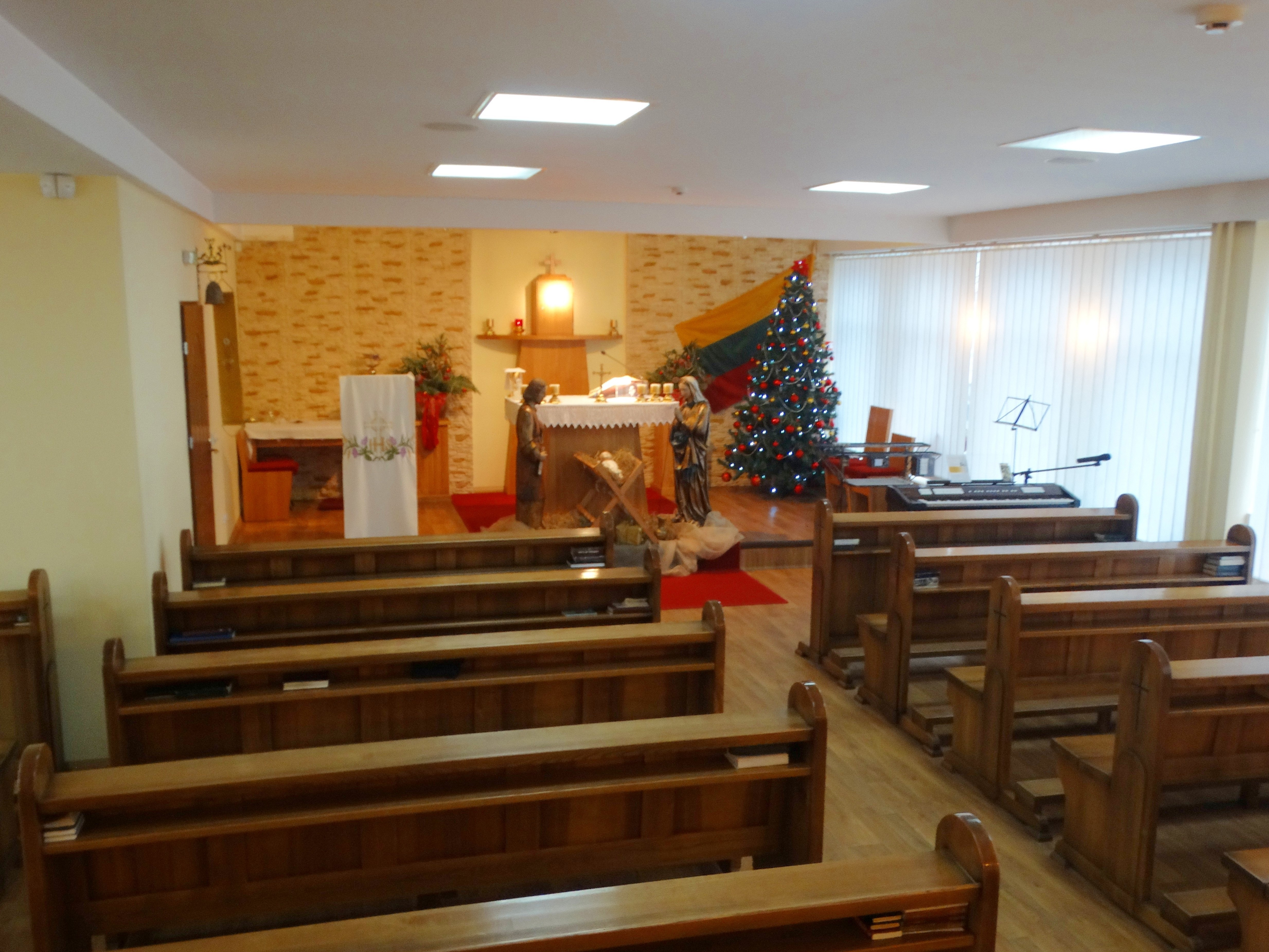 St. John the Apostle chapel, interior, Jonava, Lithuania